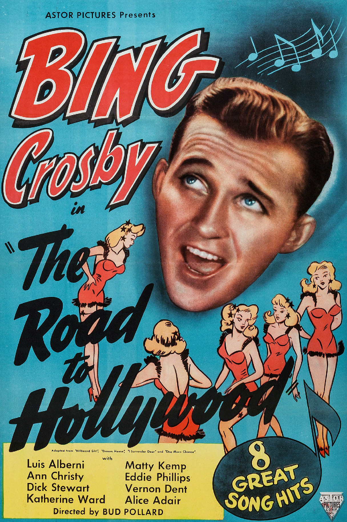 Poster for the 1947 film The Road to Hollywood.. The item has no copyright markings on it as can be seen in the links above and uncropped copy. At bottom left is Country of origin USA. At bottom right is Morgan Lirho Co, Cleveland, O. 31221-they printed the poster.